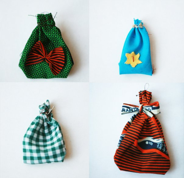 Ash Wednesday bags, made by the organisation Sóley and frends for Ash Wednesday celebration in Iceland, Reykjavík, 2011.